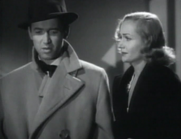 Screenshot of James Stewart and Carole Lombard from the film Made for Each Other